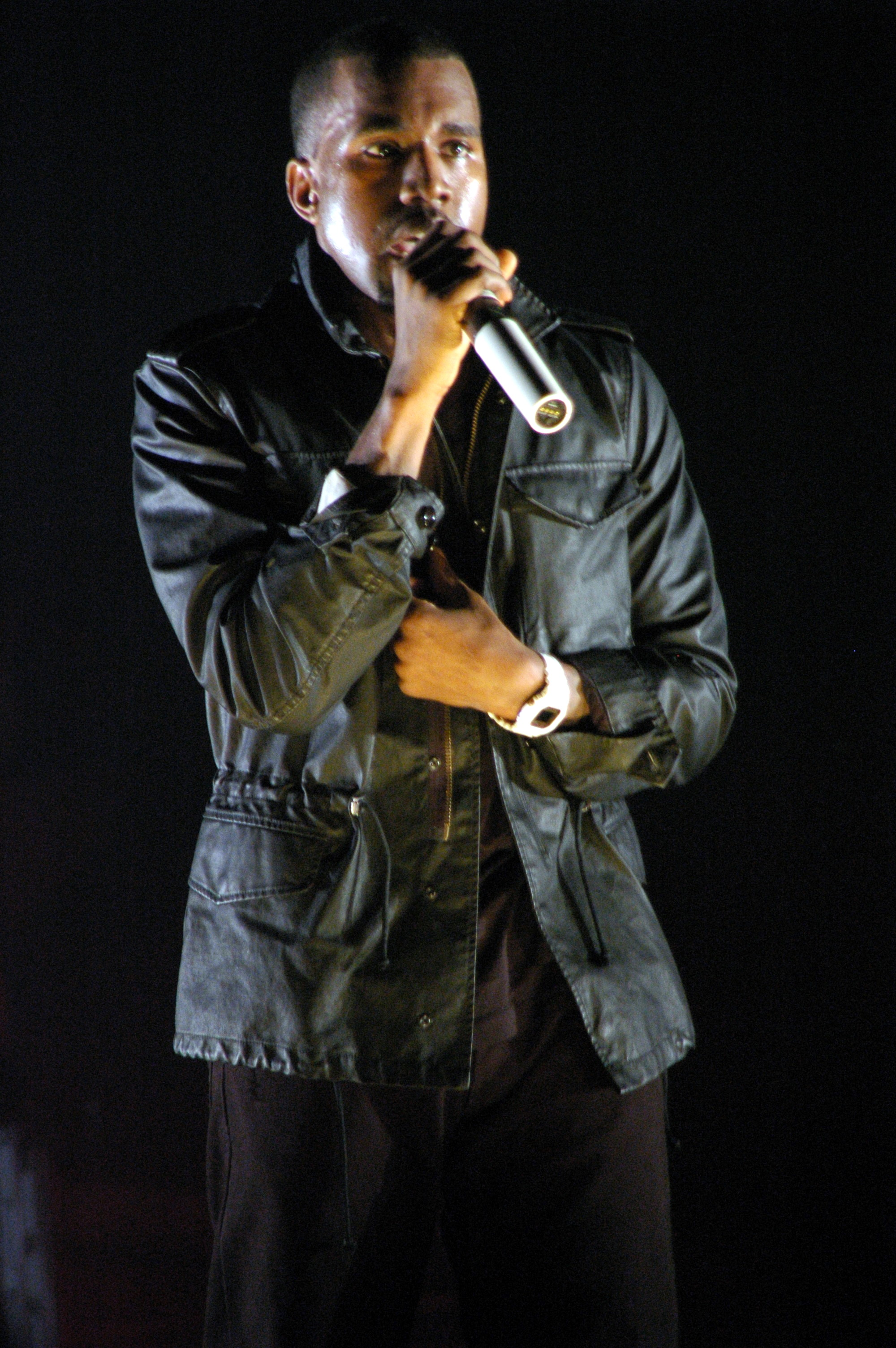 Kanye West performing at The O2 Arena on November 22, 2007 in London, England.